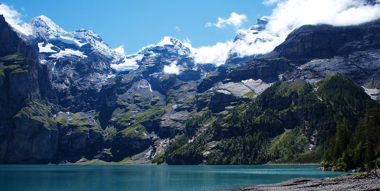 Lake Oeschinen, Kandersteg